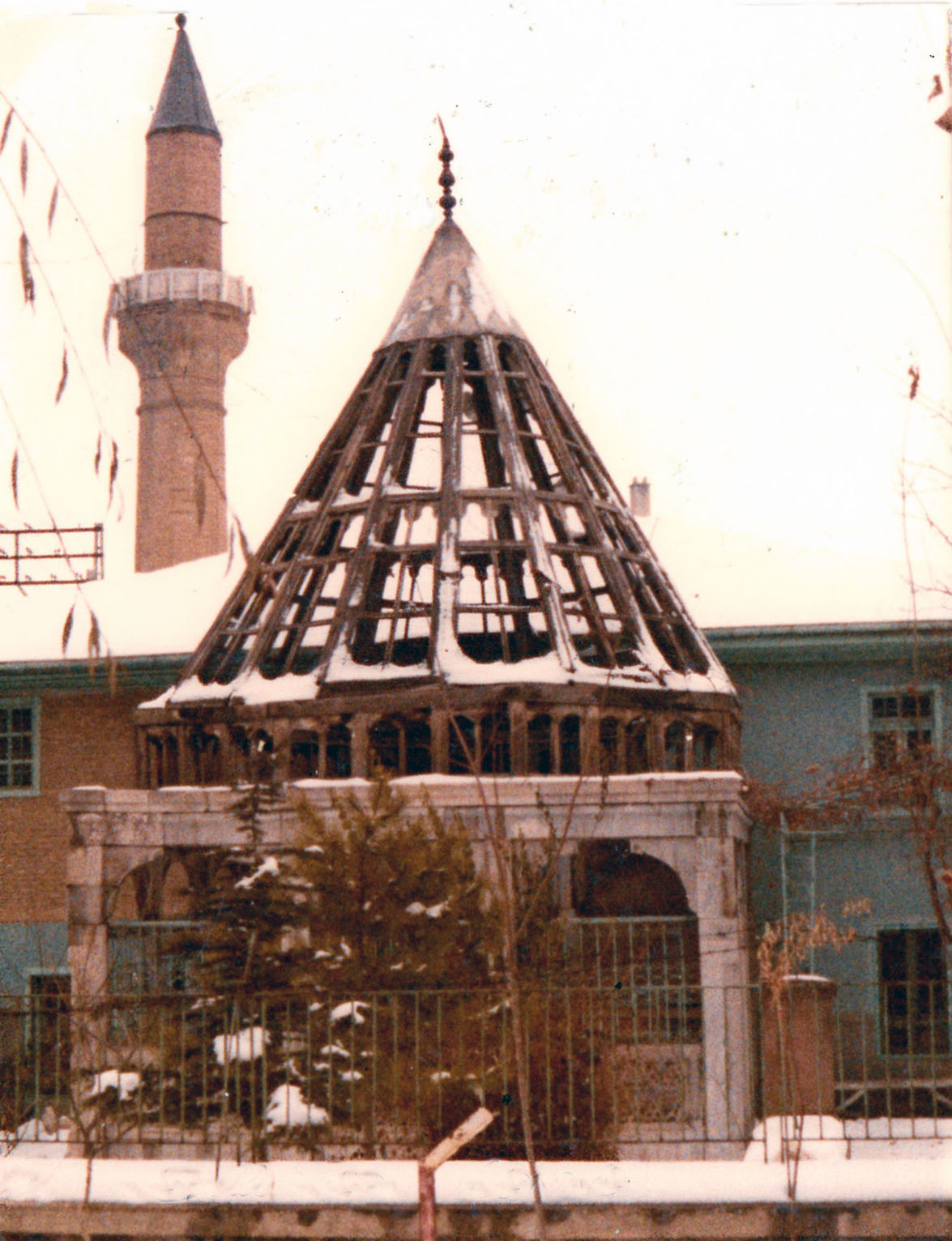 Sadr al-Din al-Qunawi's tomb is in Konya where he settled and built his reputation